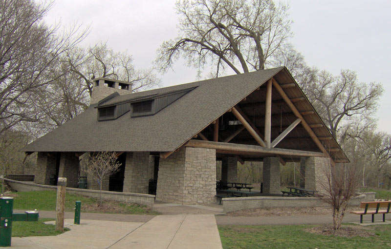 Pavilion at North Mississippi Regional Park. taken by Caleb Musselman